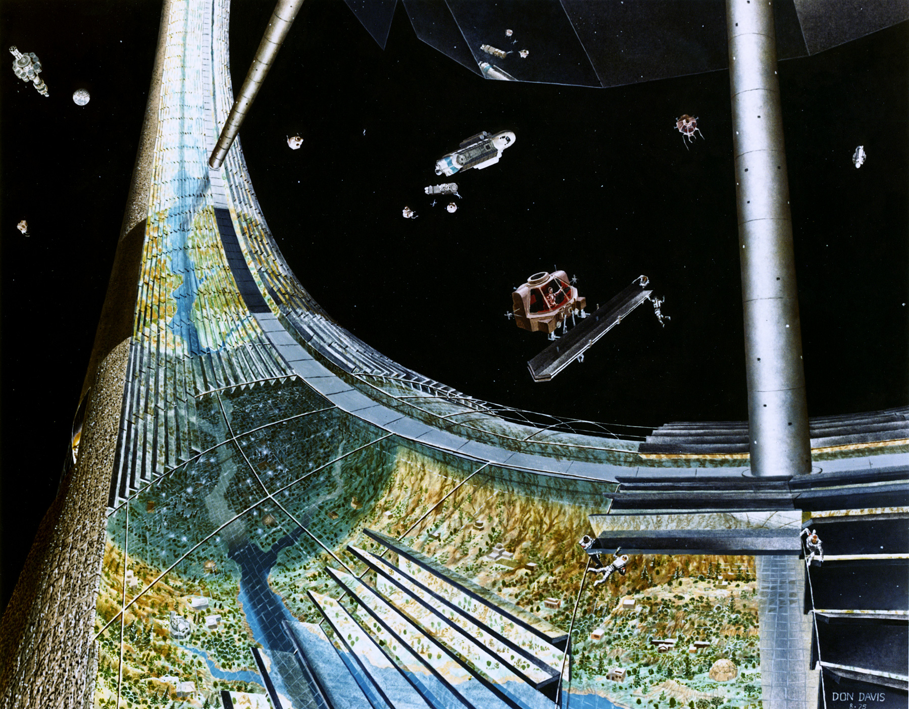 Artist's impression of the Stanford torus under construction. Artist's description: "The assembly of the 'Stanford Torus', detailing the proposed 'chevron shields' above the glass 'skylights'. The interior is shown primarily hollowed out and heavily planted. Most other depictions show the colony crammed with levels of high density housing. Oil on board for NASA Ames."